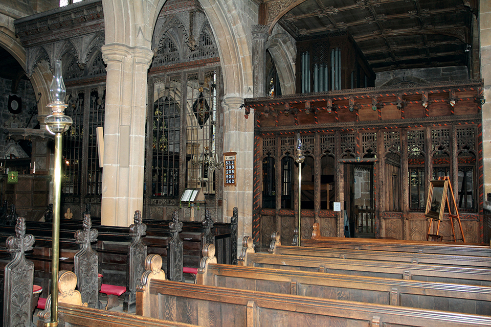 View from the nave of the screen and arcade